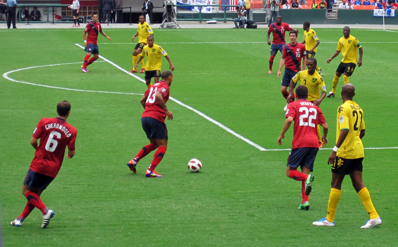 Jermaine Jones (13) with the ball